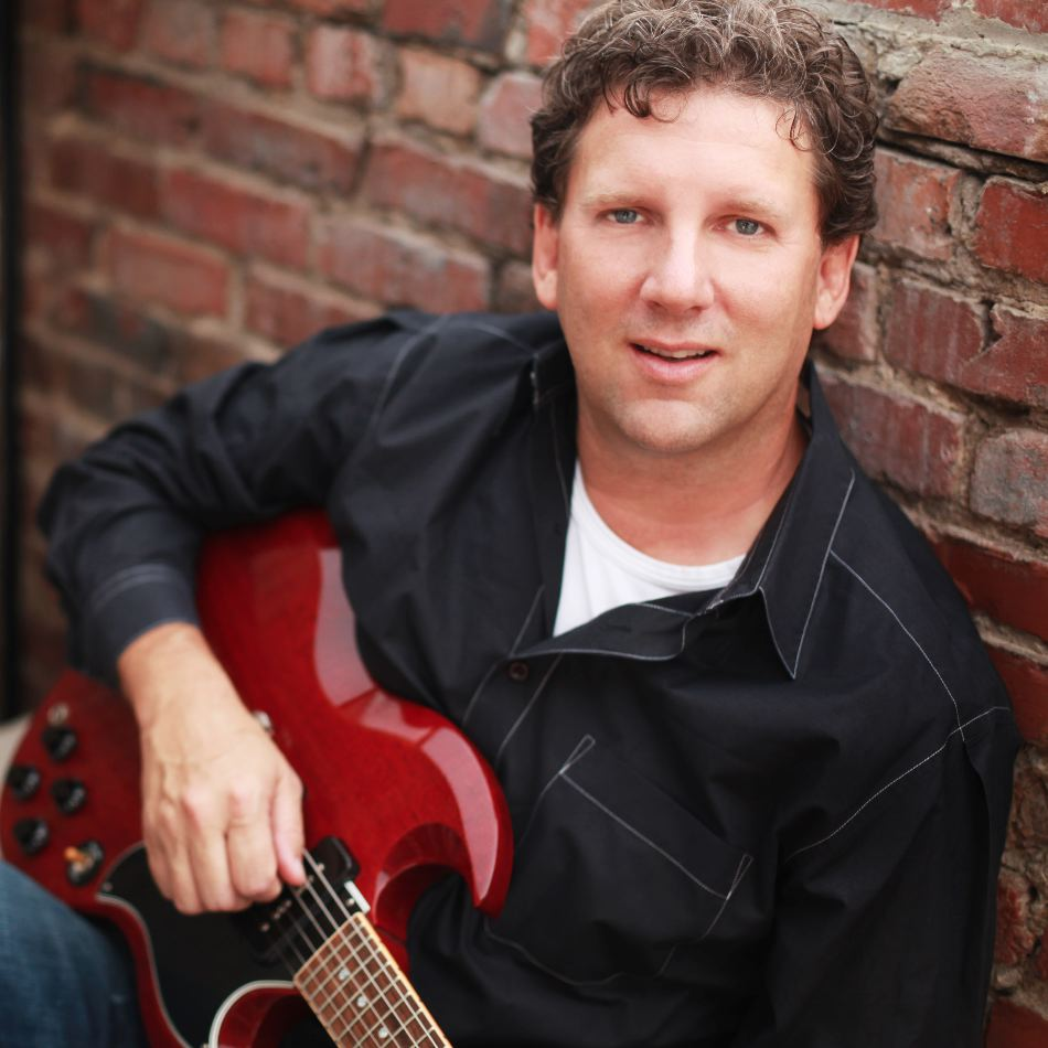 Steve Ivey